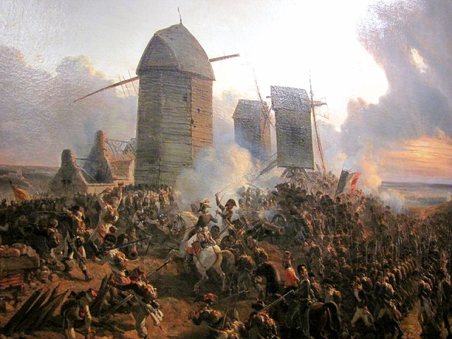 Painting of the Battle of Mouscron (Dutch: Moeskroen) on 26–30 April 1794 during the War of the First Coalition. Painted by Charles Louis Mozin in 1339.